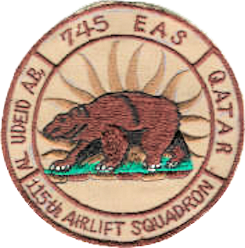 115th Airlift Squadron and 745th Expeditionary Airlift Squadron